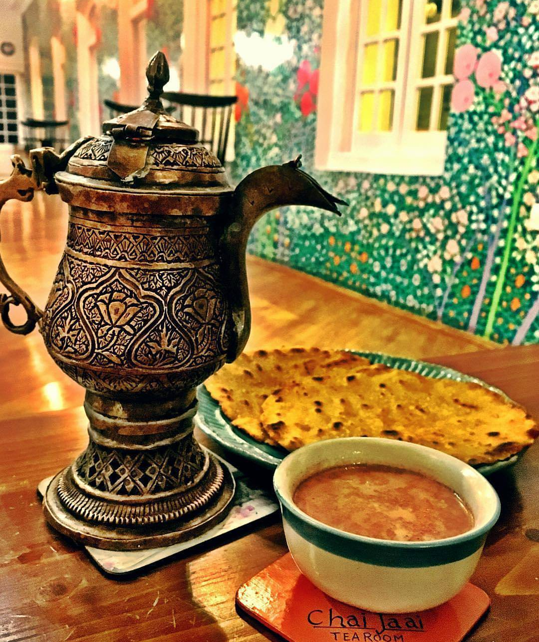 It is a traditional Tea of Kashmir used as a source of breakfast. It is made from Tea leaves, milk, salt, Nuts, saffron and sometimes little soda. The colour of Kashmiri Tea is pinkish. This photo has been taken in the country: India